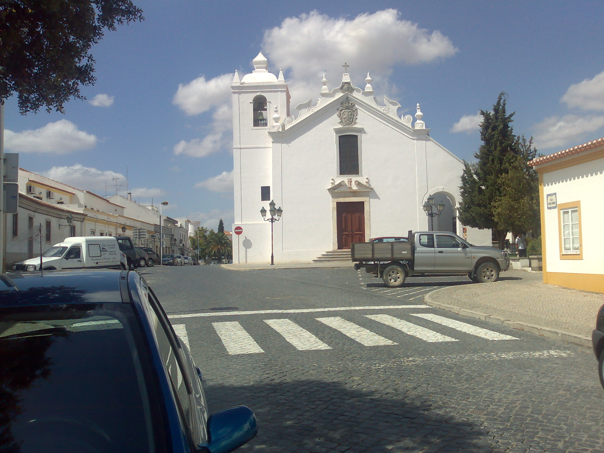 Church in Castro Verde, Portugal